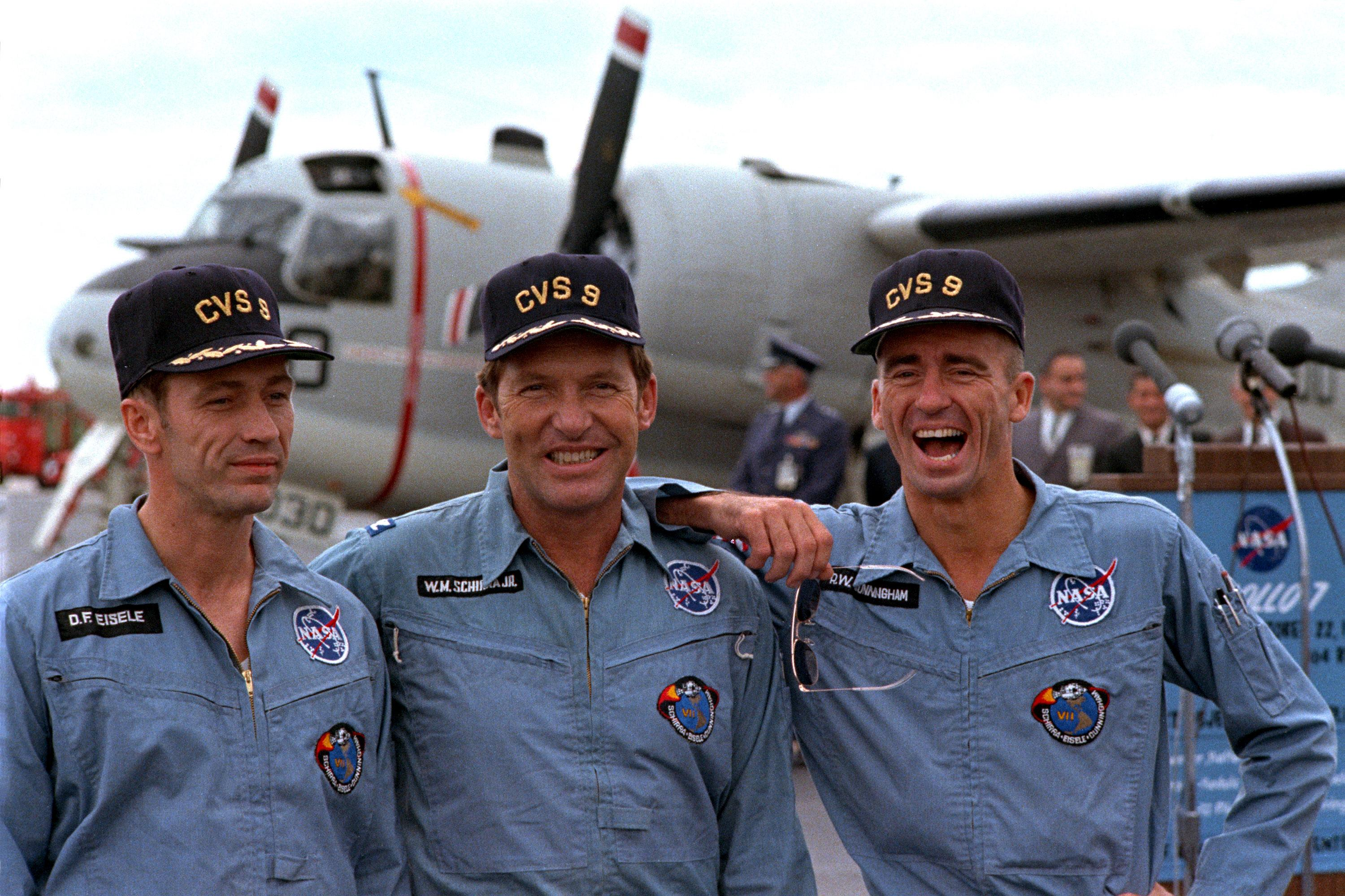 Crew of Apollo 7 after recovery aboard USS Essex